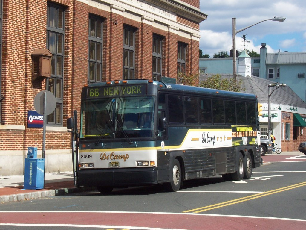 DeCamp Bus Lines MCI D4000 8409 (owned by New Jersey Transit) at the Upper Montclair Railroad Station (Bellevue Plaza) on the DeCamp 66 line.